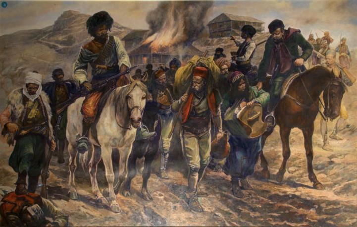 Cheta of Boris Sarafov, The Revolt in the Balkans, Macedonian Rebels carrying off Albanian Villagers near Monastir., The Illustrated London News, 11 October 1902, pp. 18-9